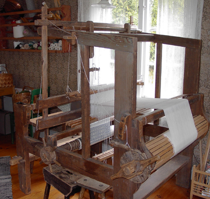 A traditional wooden loom